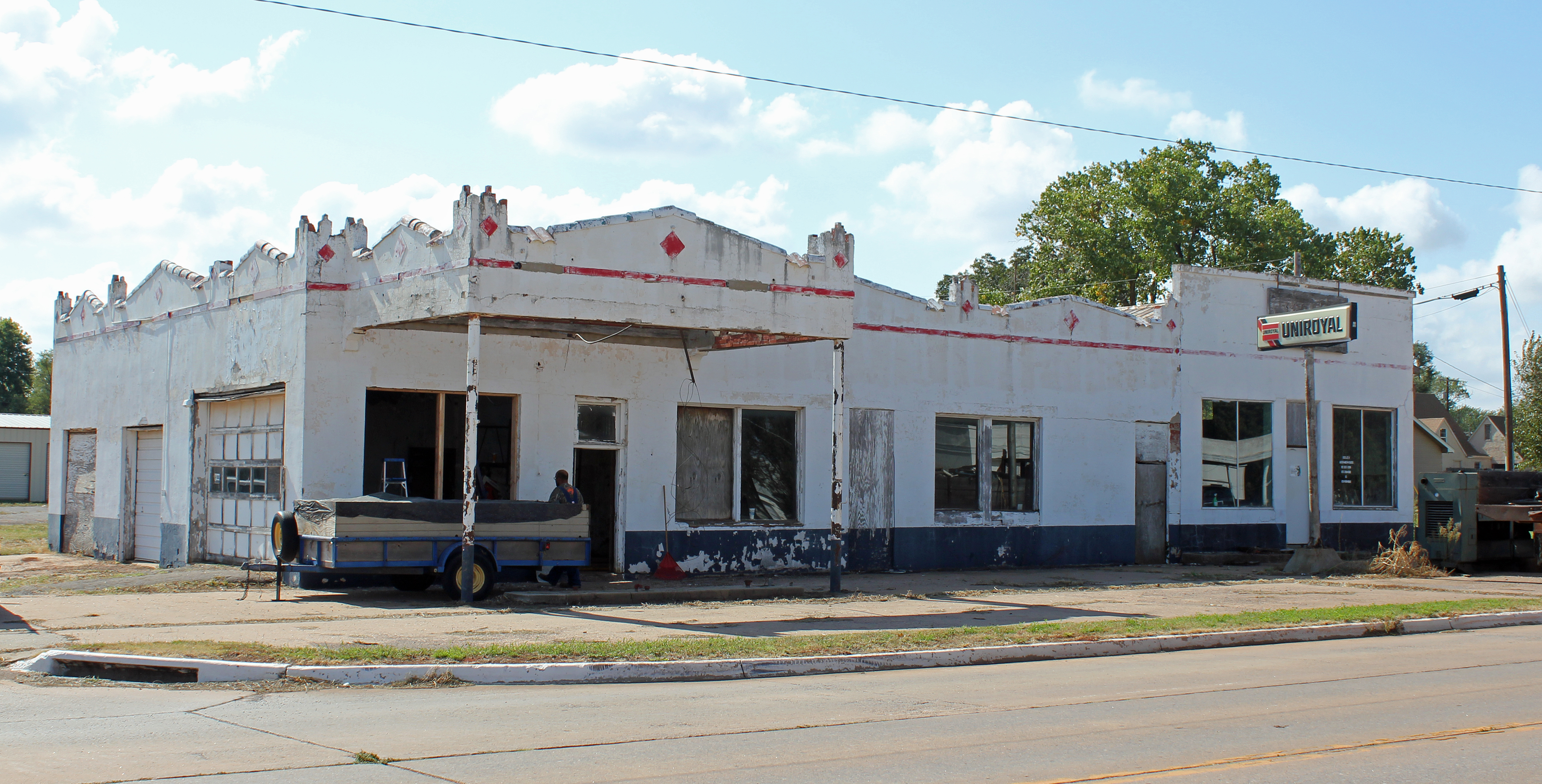 The Canute Service Station, located at the junction of Main Street and US 66 in Canute, Oklahoma. The property is listed on the National Register of Historic Places.